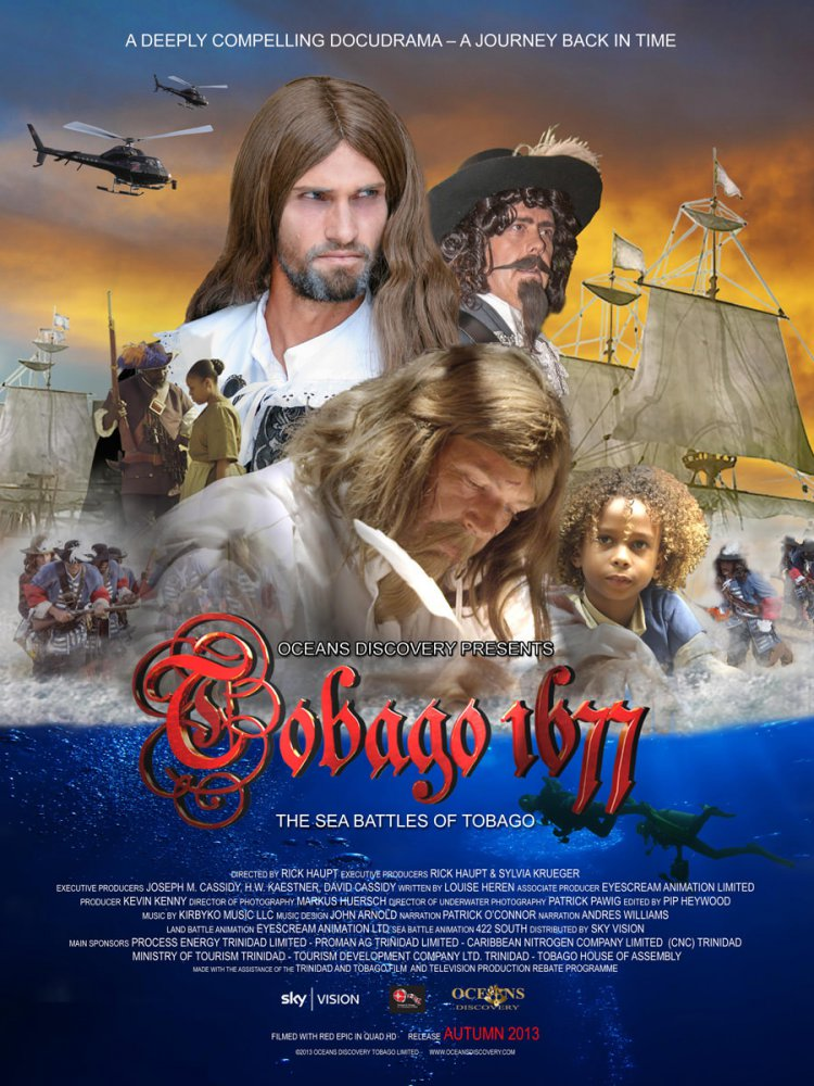 Poster for "Tobago 1677" film